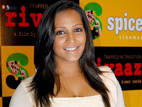 Meghna Naidu at Press conference of Rivaaz at Gold Class Lounge.